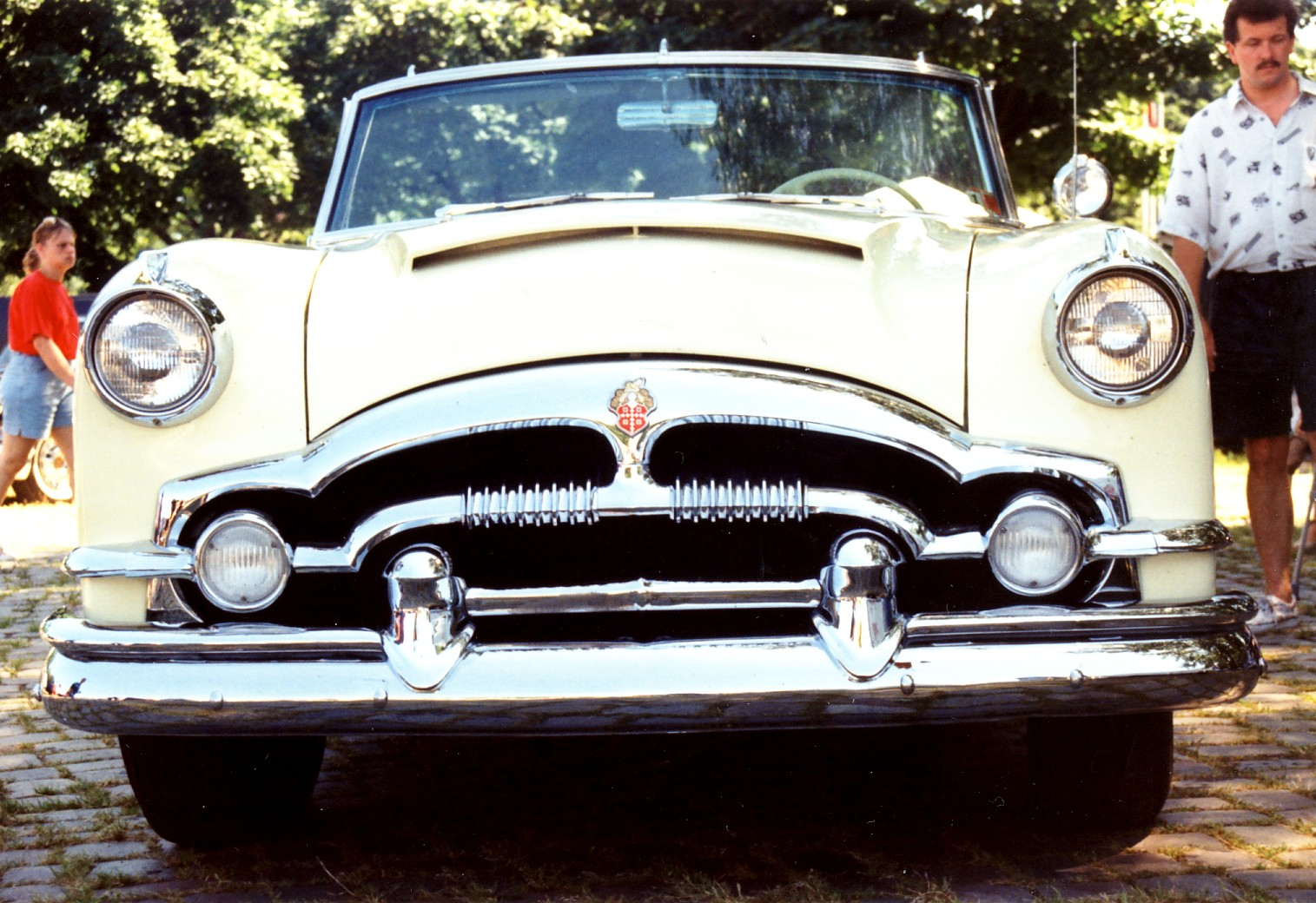 1954 Packard Caribbean Convertible model 5431-5478, at car-show in Hamburg, Germany